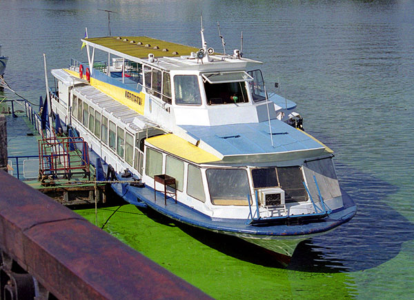 "KARPATI" in Kiev (2003). Project R-51